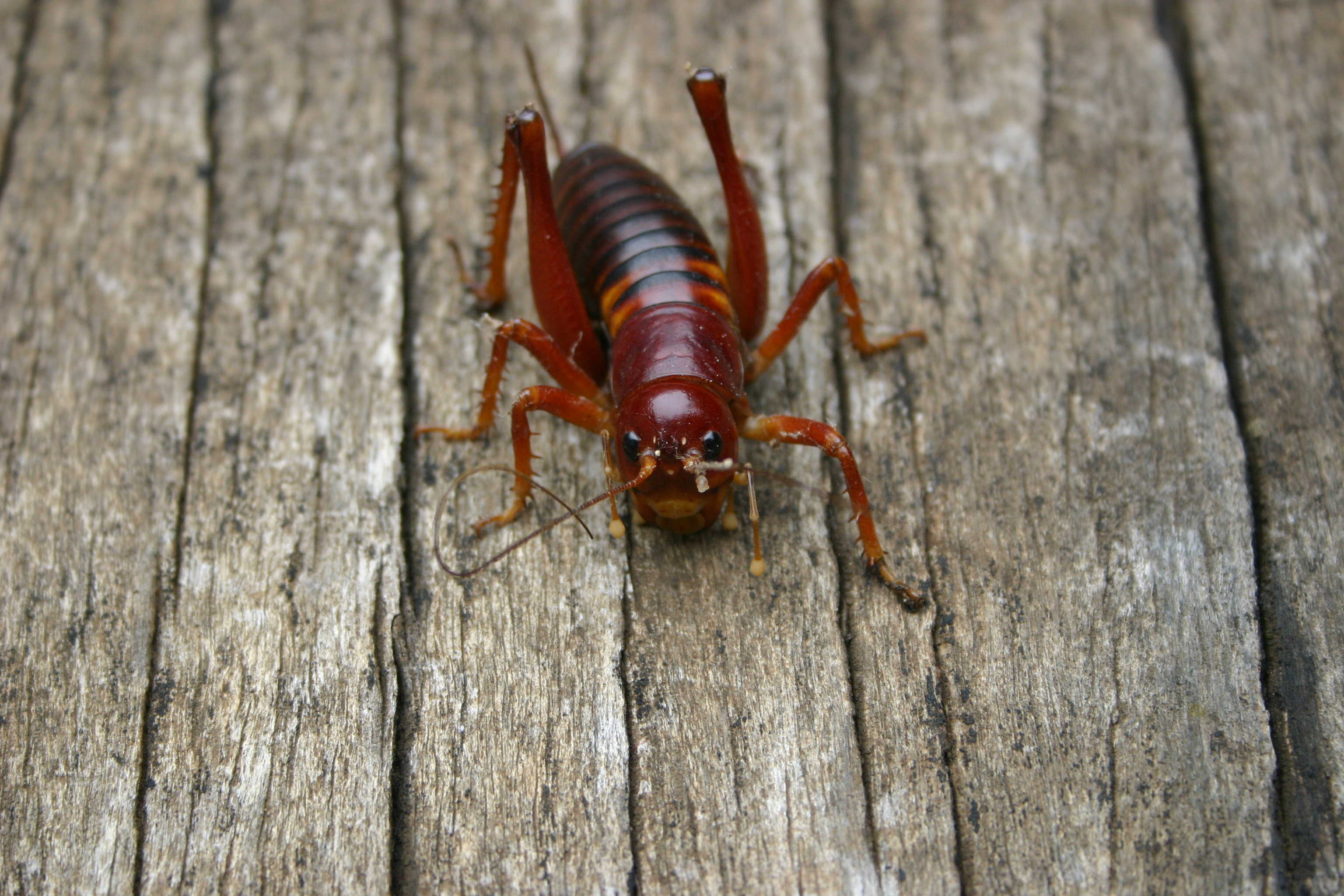 female Libanasidus vittatus, Parktown Prawn, at Chucklenook, Honeydew, Johannesburg